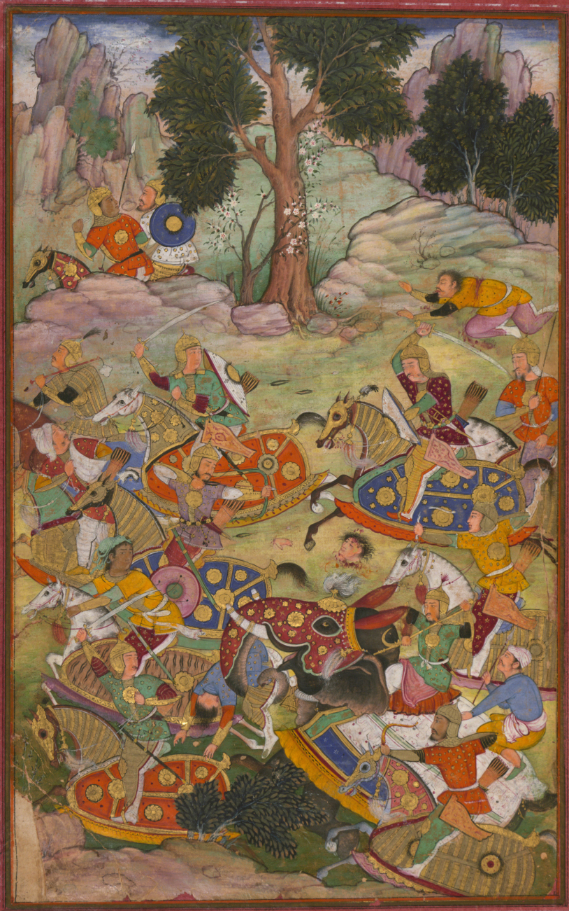 Illustrations from the Manuscript of Baburnama (Memoirs of Babur) - Late 16th Century Bāburnāma is the memoirs of Ẓahīr ud-Dīn Muḥammad Bābur (1483-1530), founder of the Mughal Empire and a great-great-great-grandson of Timur. It is an autobiographical work, originally written in the Chagatai language, known to Babur as "Turki" (meaning Turkic), the spoken language of the Andijan-Timurids. Because of Babur's cultural origin, his prose is highly Persianized in its sentence structure, morphology, and vocabulary,and also contains many phrases and smaller poems in Persian. During Emperor Akbar's reign, the work was completely translated to Persian by a Mughal courtier, Abdul Rahīm, in AH (Hijri) 998 (1589-90). These Paintings, being a fragment of a dispersed copy, was executed most probably in the late 10th AH /16th CE century. It contains 30 mostly full-page miniatures in fine Mughal style by at least two different artists. Another major fragment of this work (57 folios) is in the State Museum of Eastern Cultures, Moscow.